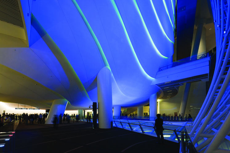 The Star Performing Arts Centre inside The Star Vista, Buona Vista, Singapore.